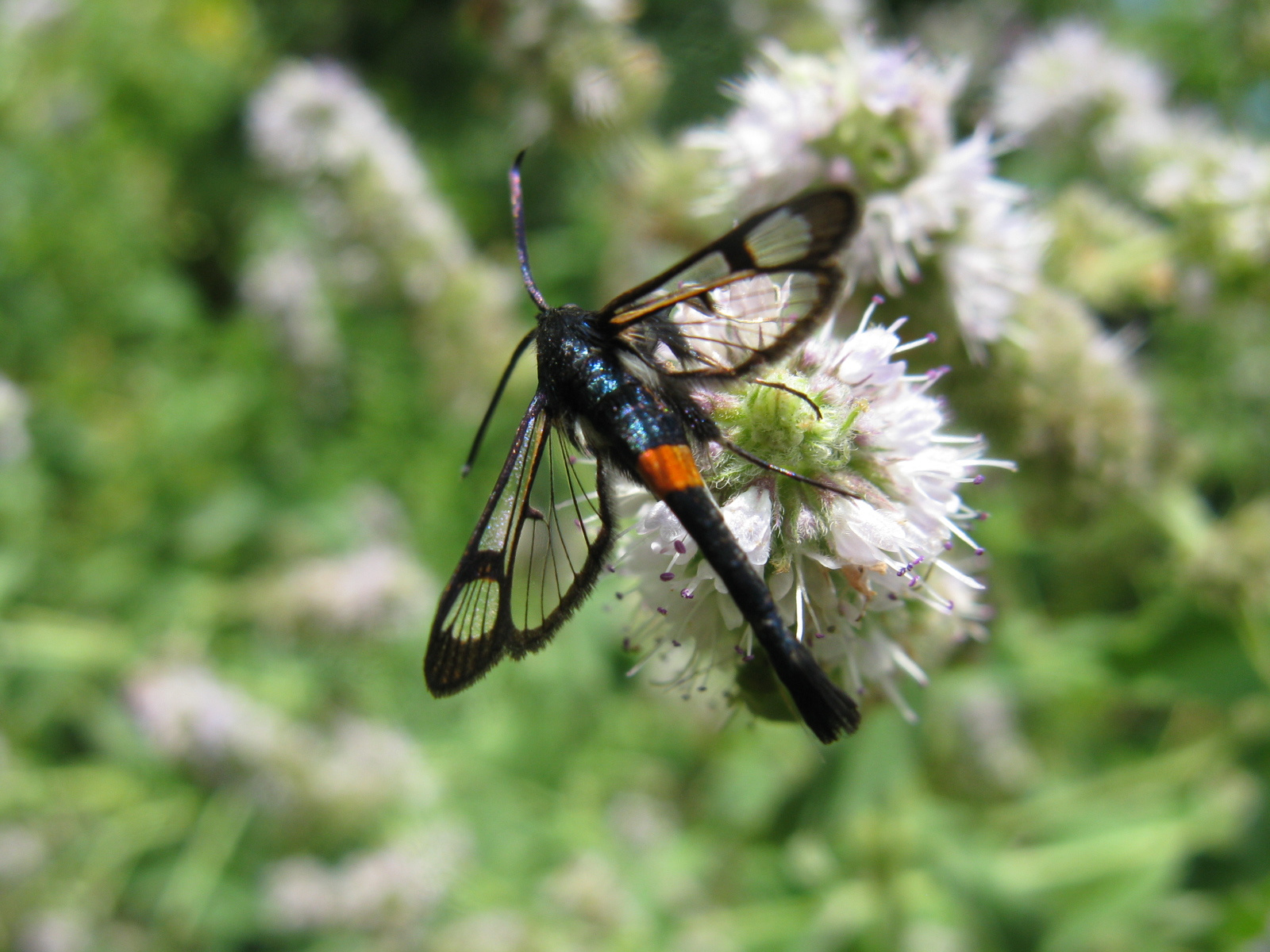 Synanthedon myopaeformis